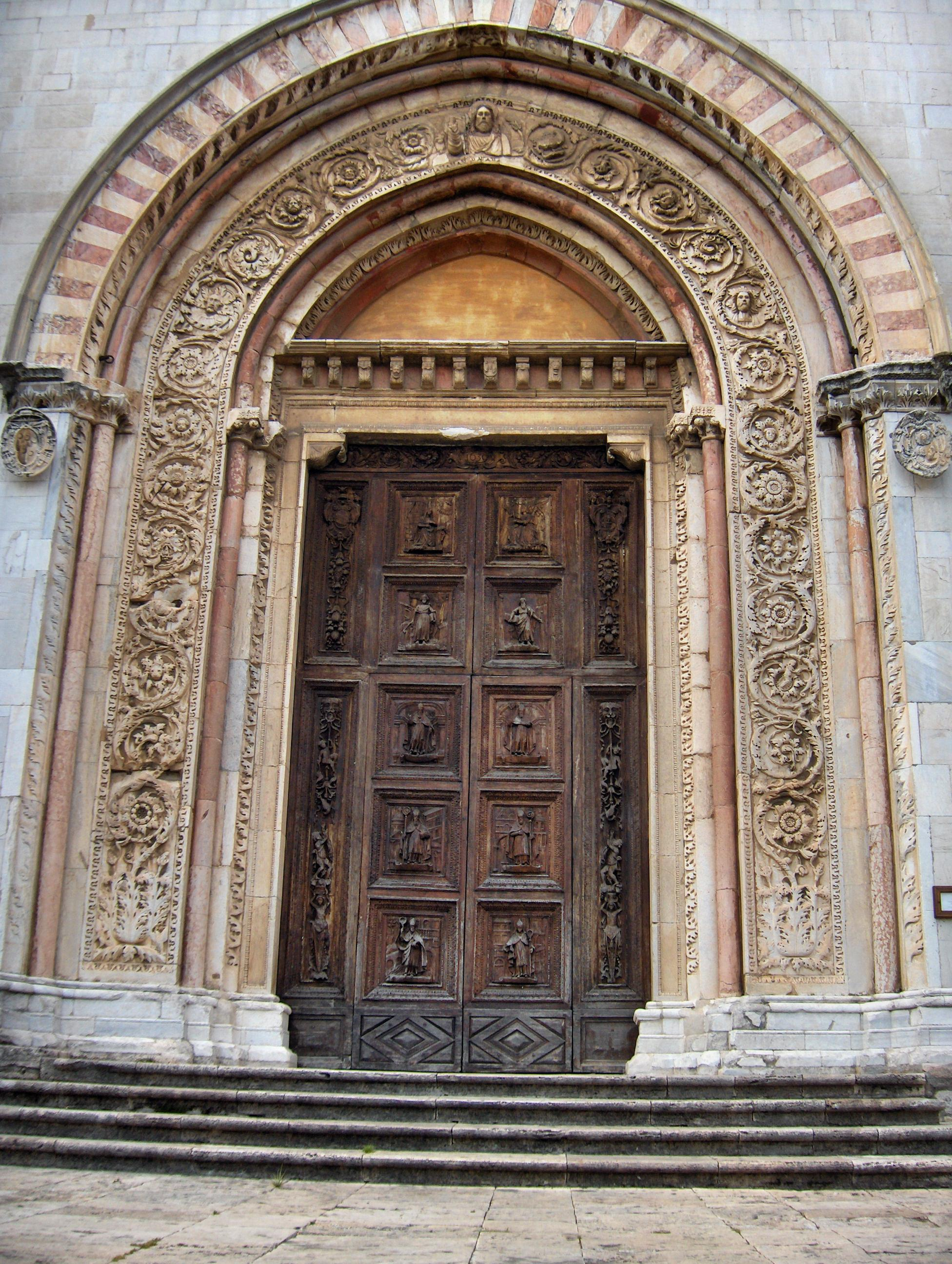 Arched entrance to the cathedral, decorated with acanthus leaves; the four upper walnut panels of the wooden door are by Antonio Bencivenni from Mercatello (1533), the others date from 1639;Todi, Italy